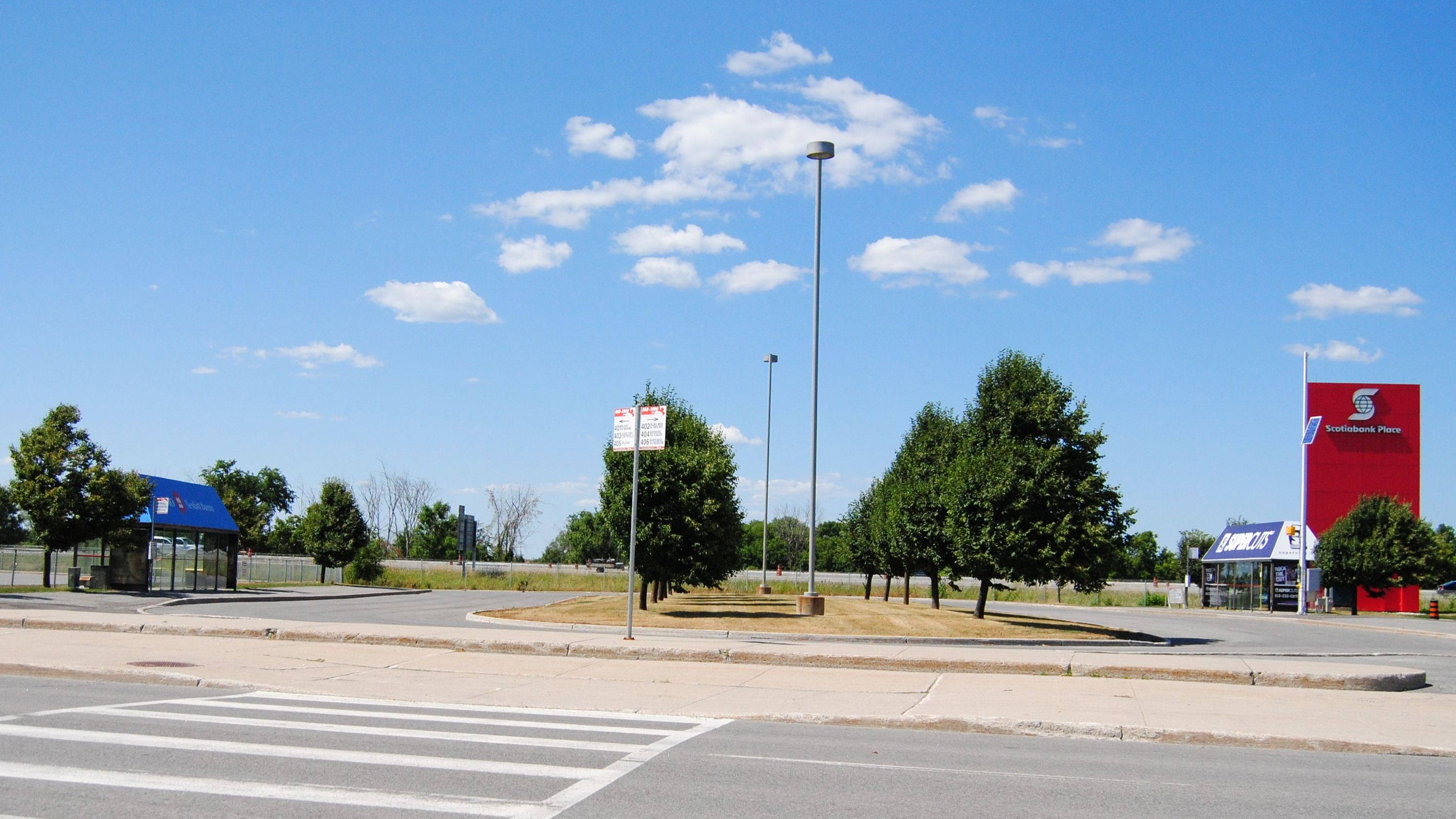 Scotiabank Place Station, as it appears in July 2012.